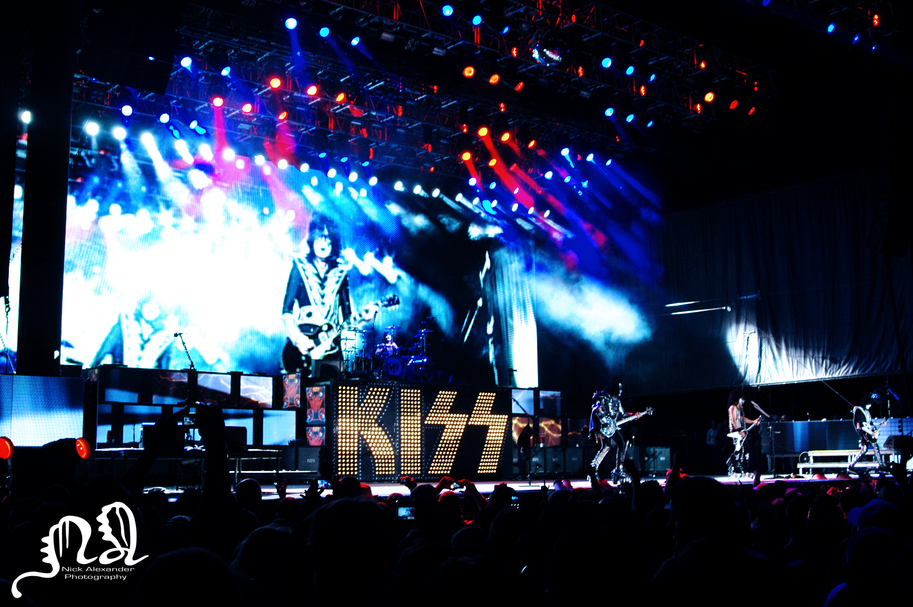 KISS Performs at Epicenter Festival 2010 in Fontana, California